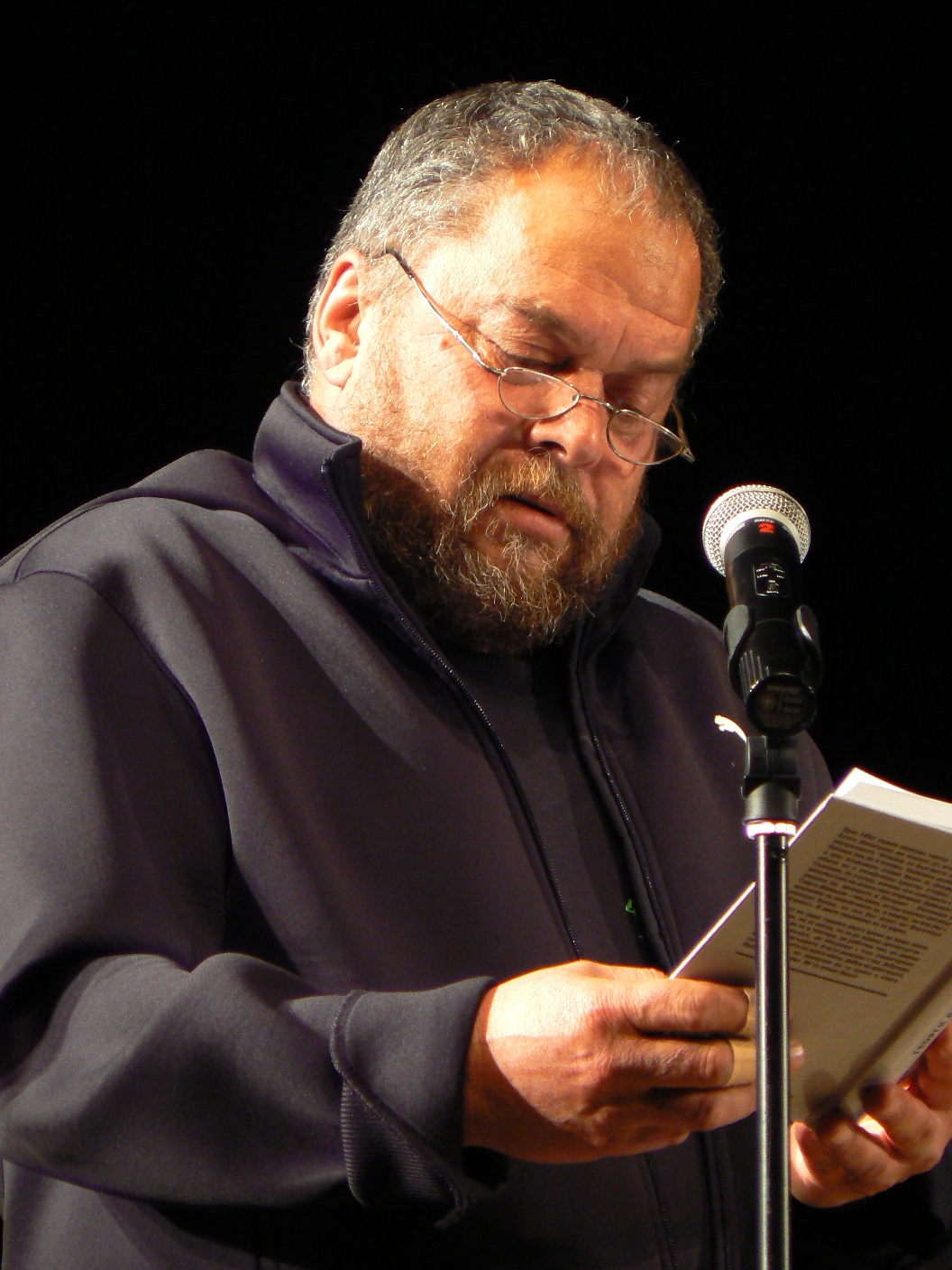 Bulgarian actor Ivan Petrushinov